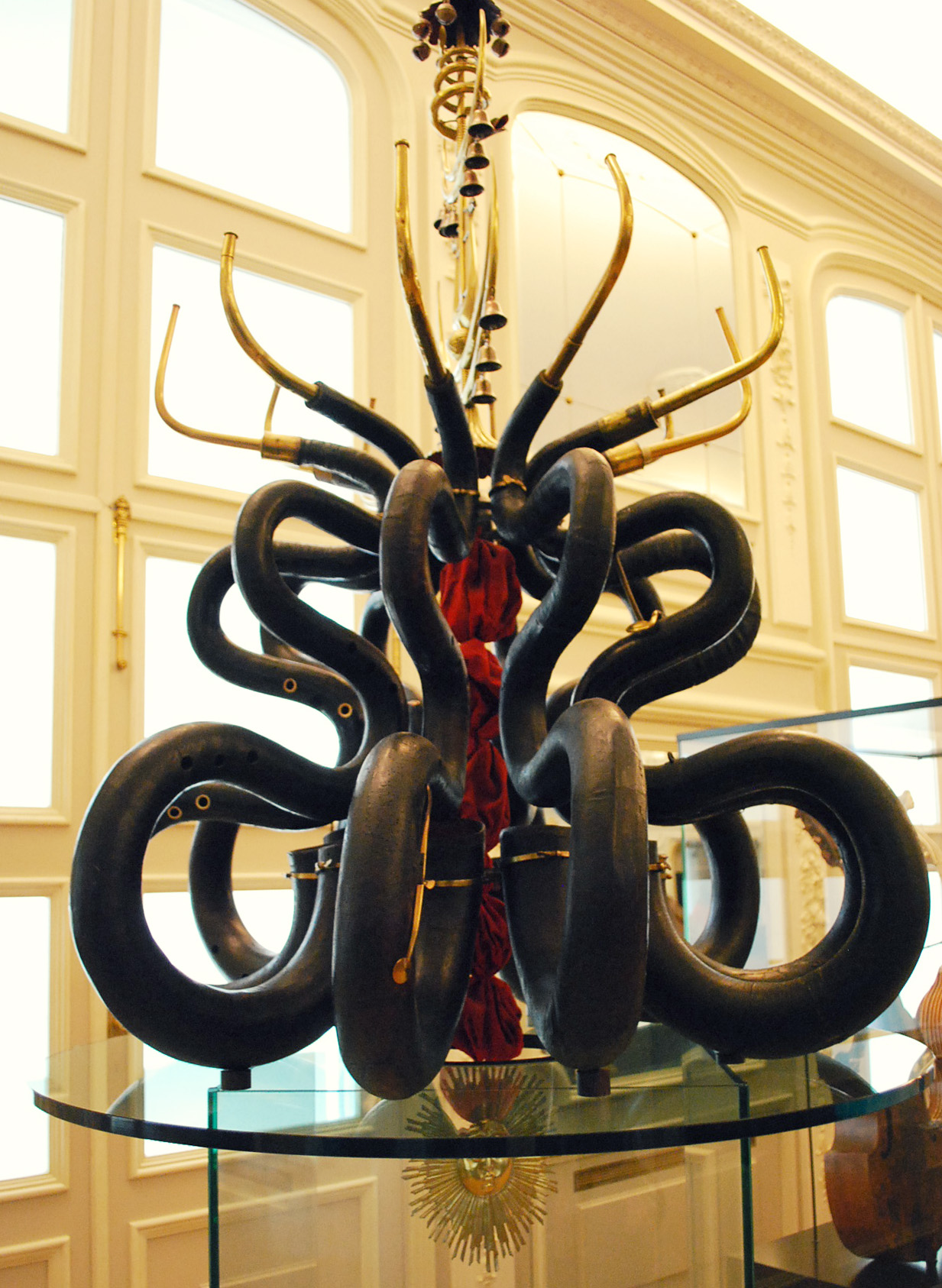 Antique instrument (serpent) on display at the Musical Instrument Museum in Brussels, Belgium.